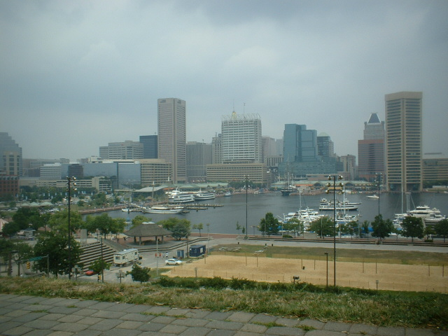 Baltimore